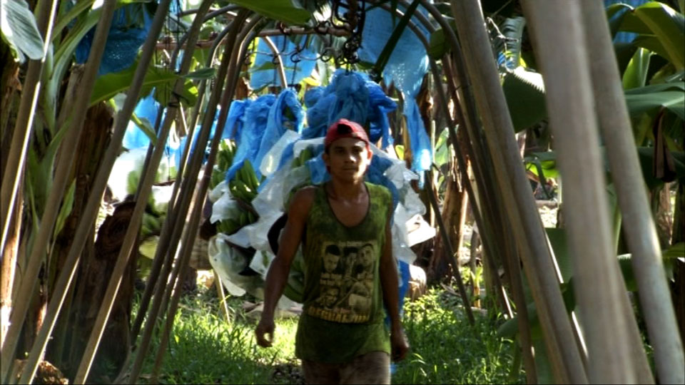 Plantation worker pulling a load of bananas on a rail in a plantation in Nicaragua. Still from the documentary Bananas!*.